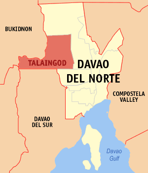 Map of the Davao del Norte showing the location of Talaingod